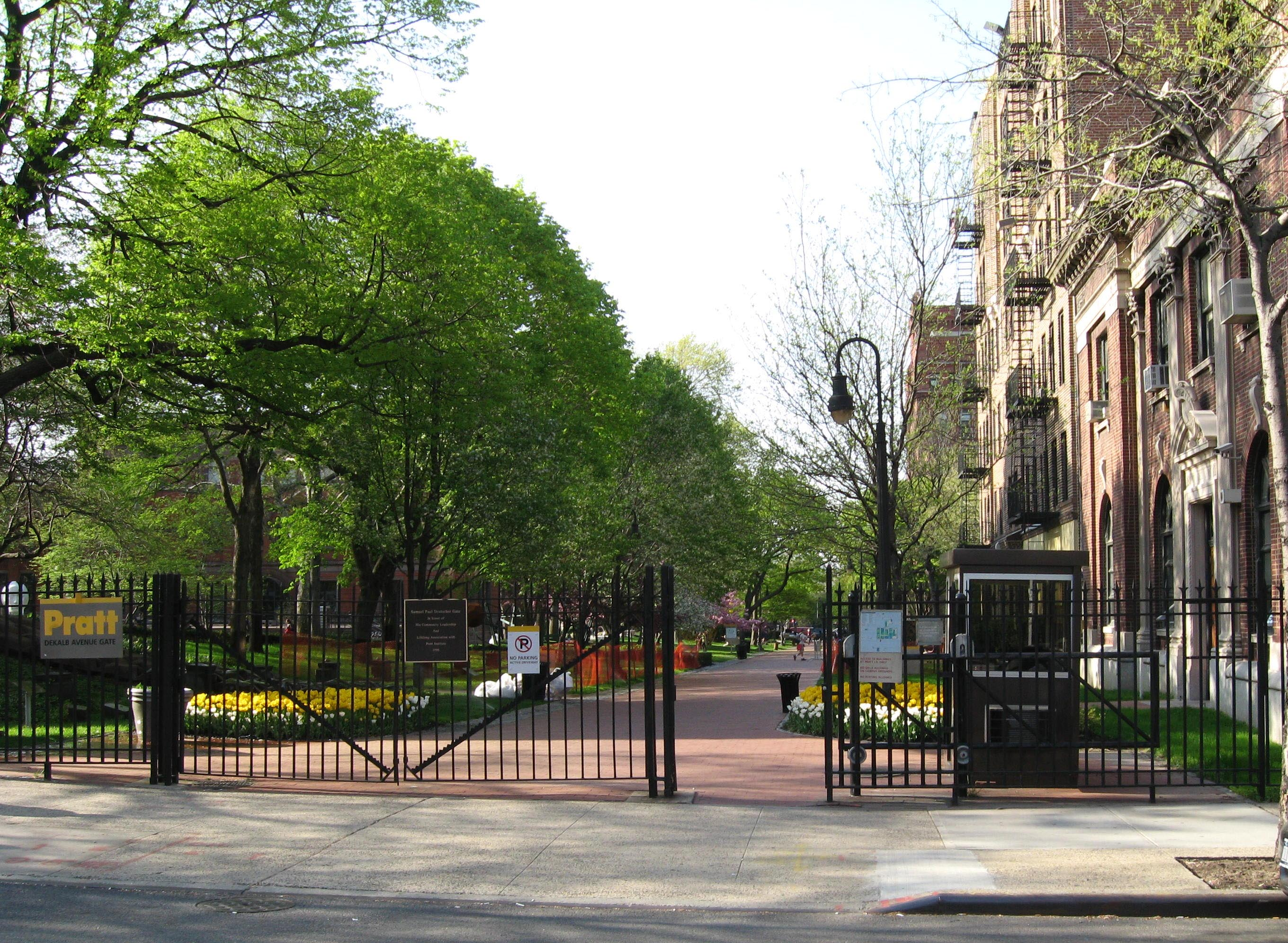 Pratt Institute main gate on Dekalb and Reyerson, looking north on a springtime late afternoon.